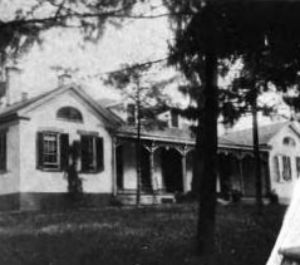 The residence of American lawyer and statesman Edwin McMasters Stanton, while he lived in Cadiz, Ohio, USA.